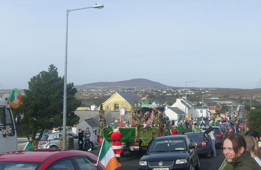 St Patrick's Day parade in Gweedore, Co Donegal, Ireland (2009)